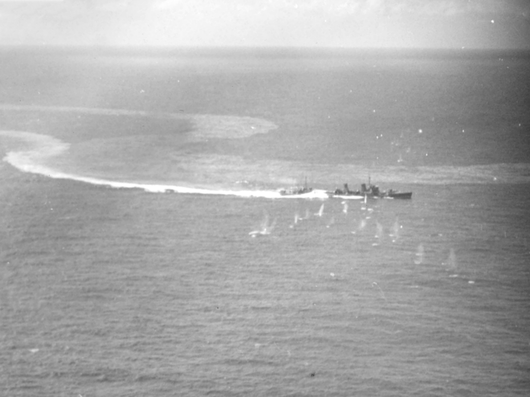 A Japanese destroyer under attack near Truk Lagoon, as seen from U.S. Navy Grumman TBF Avenger of Torpedo Squadron Six (VT-6) from USS Intrepid (CV-11) on 18 February 1944. This could be the destroyer Oite. On 16 February, Oite was escorting the damaged cruiser Agano to Japan from Truk when Agano was torpedoed and sunk by the U.S. Navy submarine USS Skate (SS-305). Oite rescued 523 of Agano´s crew and turned back towards Truk. However, just as Oite was entering Truk Lagoon on 18 February, the Japanese base was struck by United States Navy aircraft in Operation Hailstone. Oite was torpedoed, broke in half and sank almost immediately with loss of 172 of 192 crewmen and all 523 survivors of Agano.